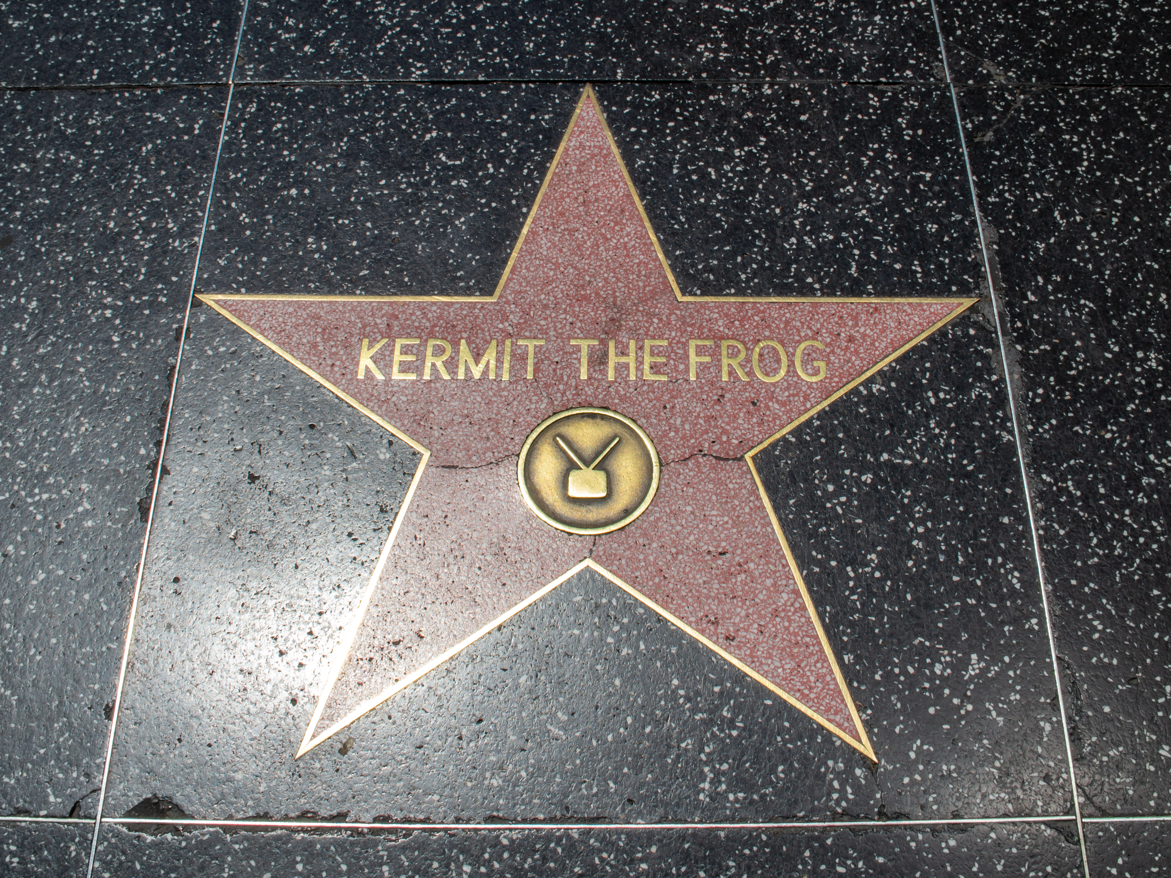 Star “Kermit the Frog” at the Hollywood Boulevard in Los Angeles, California, USA